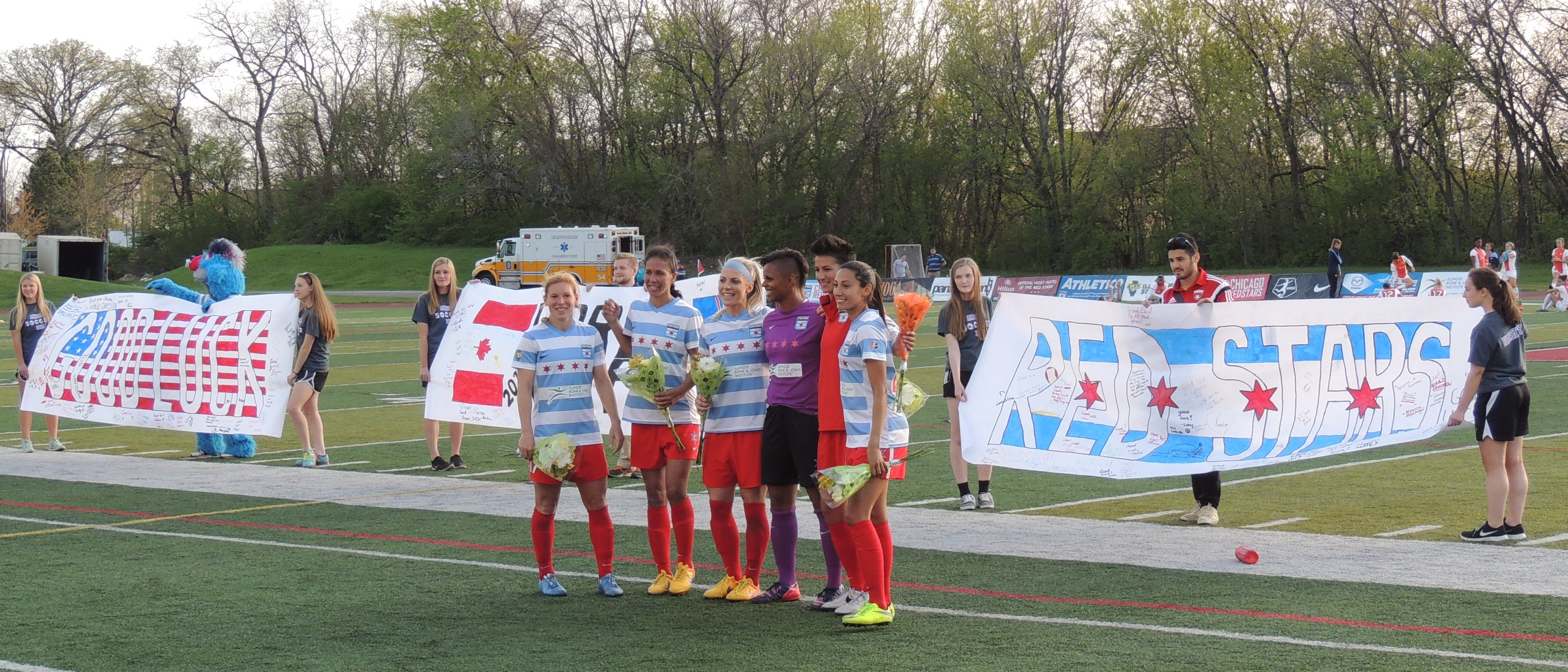 2015 Chicago Red Stars World Cup contigent